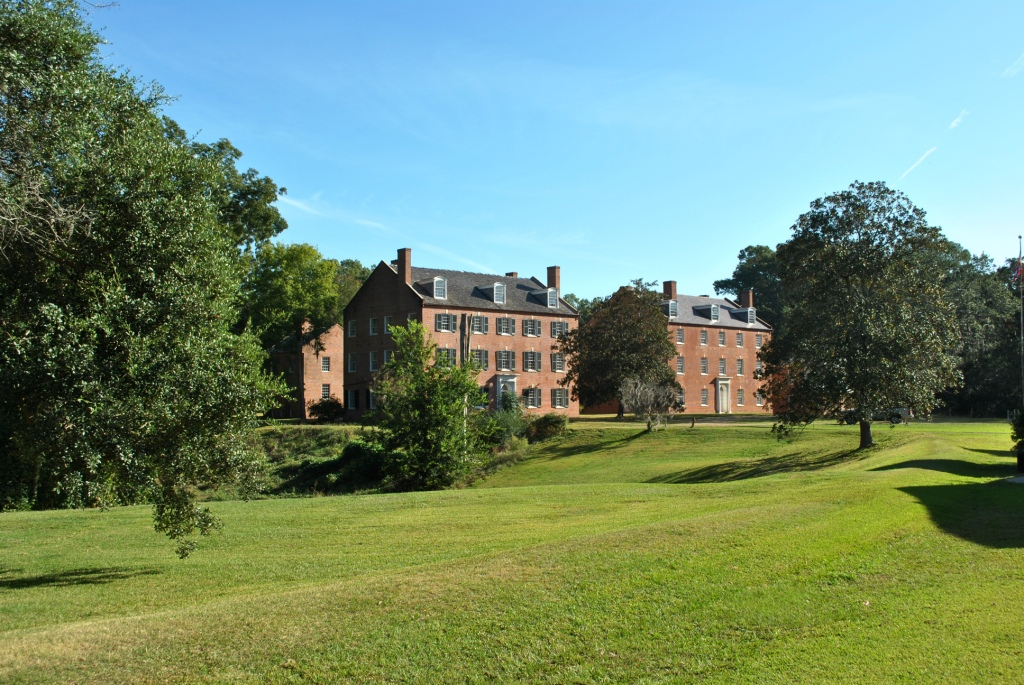 Jefferson College Building identification: left foreground = West Wing; left background = Steward's Building; right foreground = East Wing.